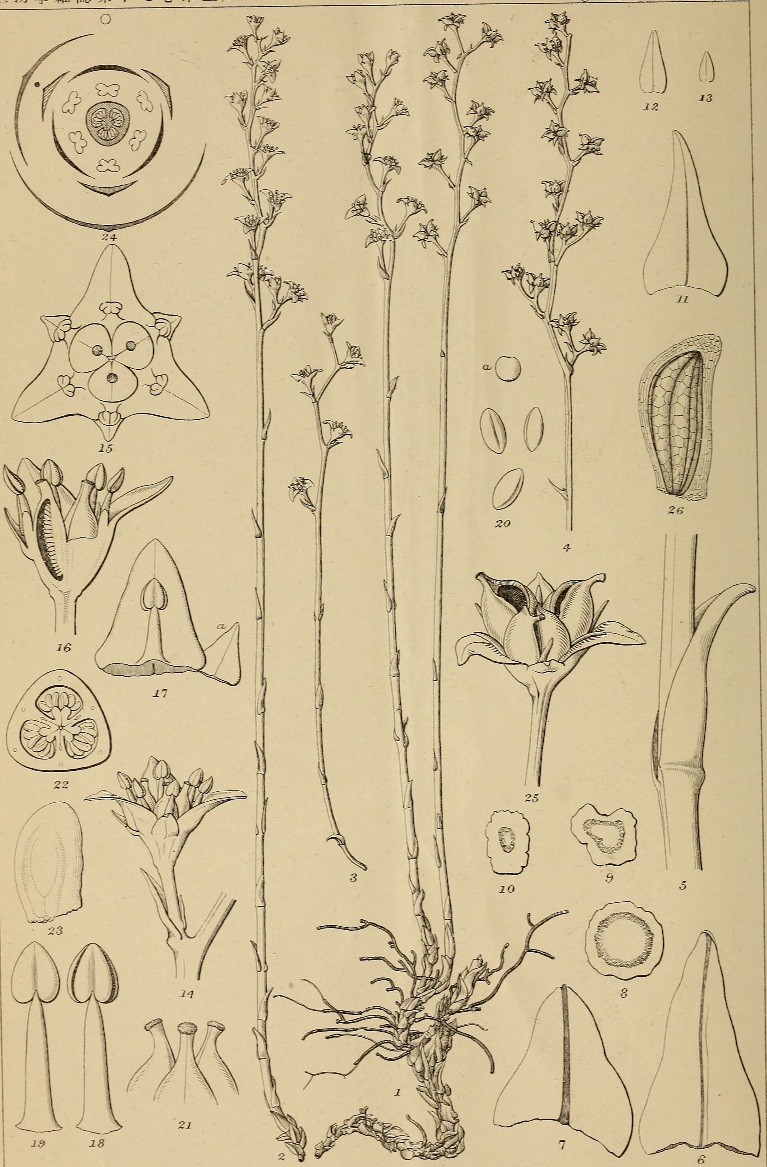 Title: The botanical magazine = Shokubutsugaku zasshi Year: 1887 (1880s) Authors: Tokyo Shokubutsu Gakkai; Nihon Shokubutsu Gakkai Subjects: Plants; Botany Publisher: Tokyo : Tokyo Botanical Society Text Appearing Before Image: 搔^學雜誌第ナ七I第五版 B ot.AIaor,ToVoyolX\TI.Piy. 1\A TV"0 S Jli 9l O d^KXLT dull, JVt3-kl. サクラ井サゥ（新稻、 Text Appearing After Image: '